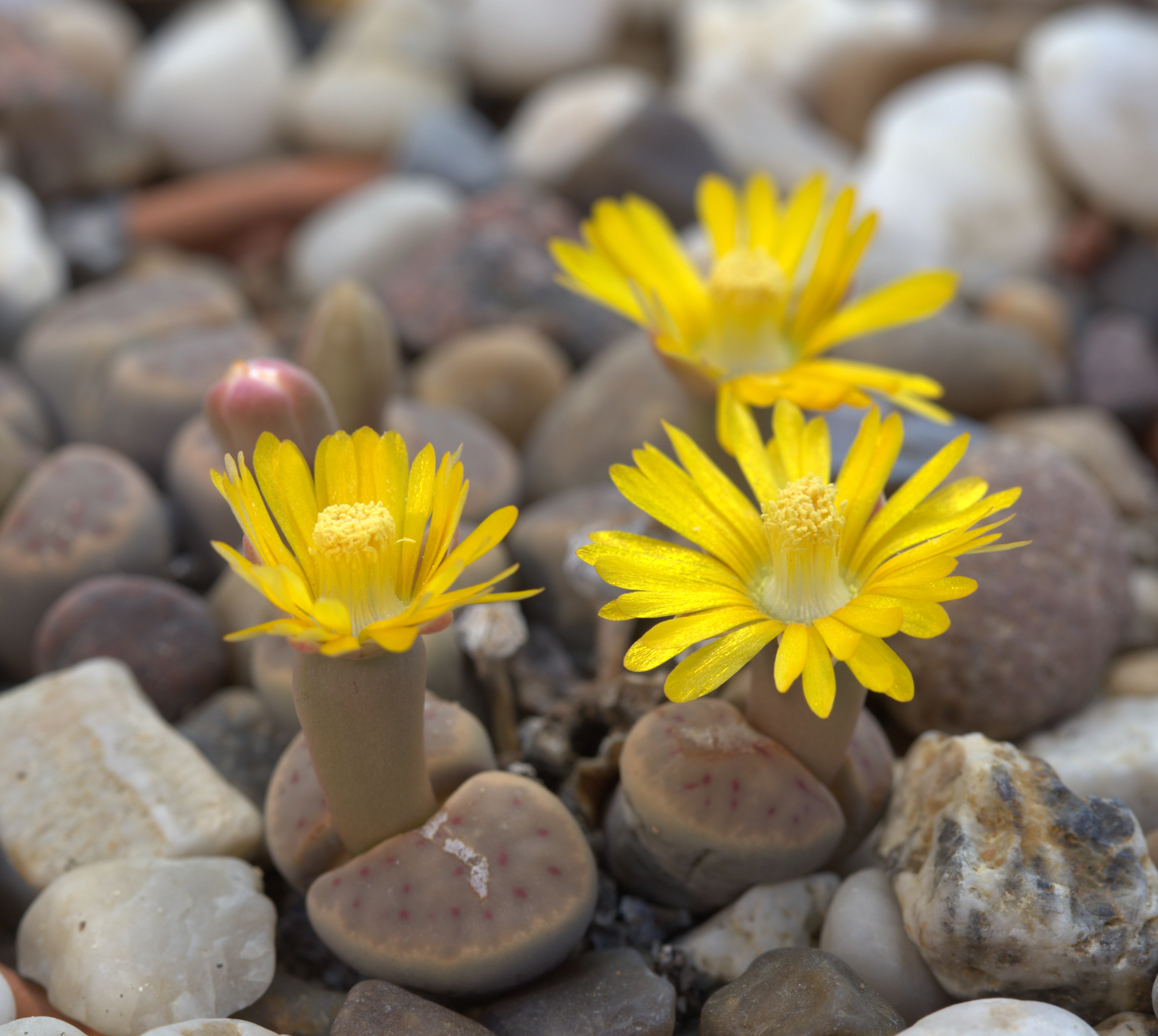 Lithops dinteri in Gothenburg botanical garden. Plant id: 2012-1455 p Z -- Haage Ka.